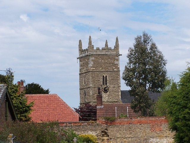 Alkborough Church. The South face of the church tower.